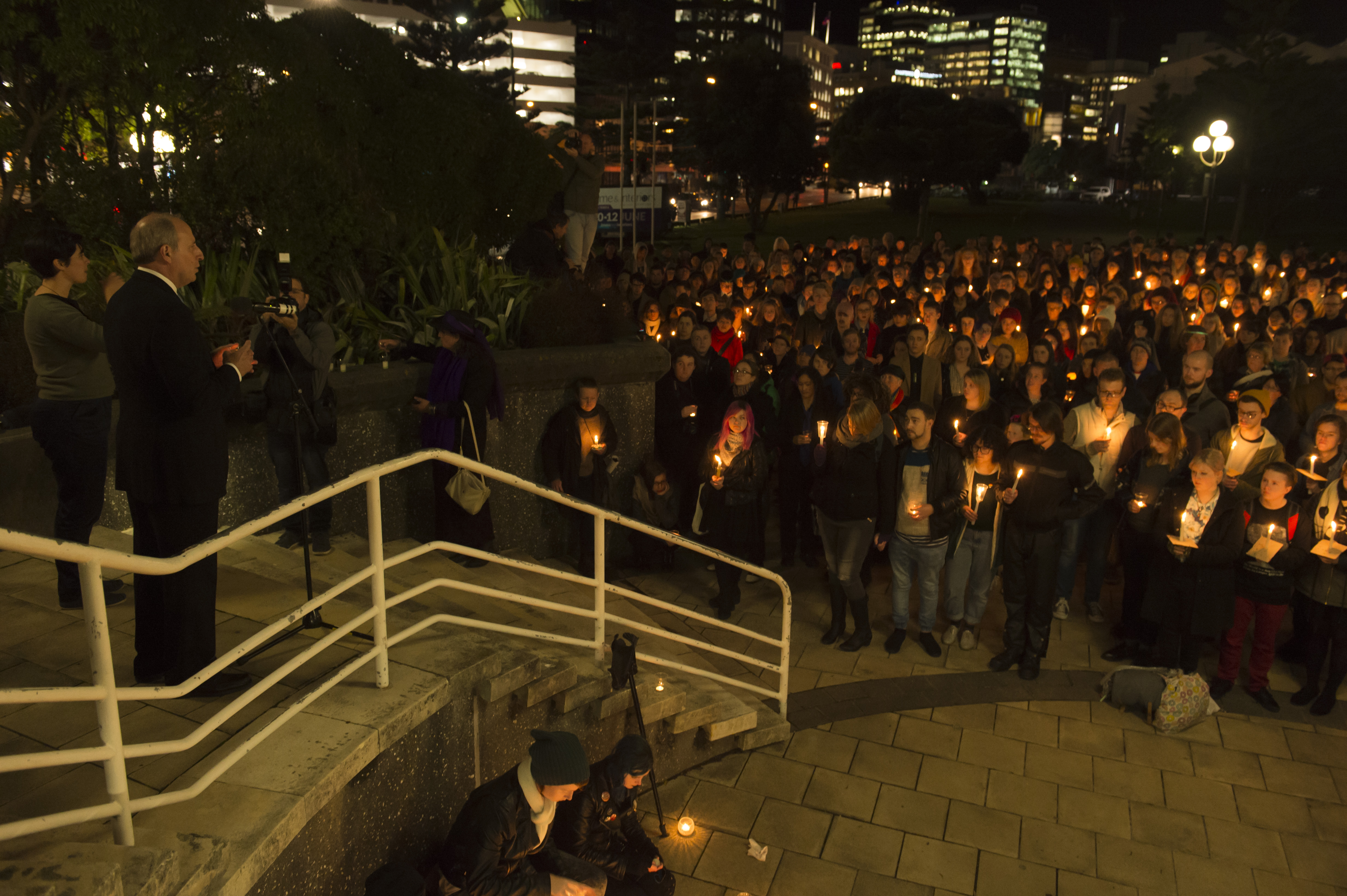 Mark Gilbert at the vigil in support of the victims of the 2016 Orlando nightclub shooting, Wellington, New Zaeland